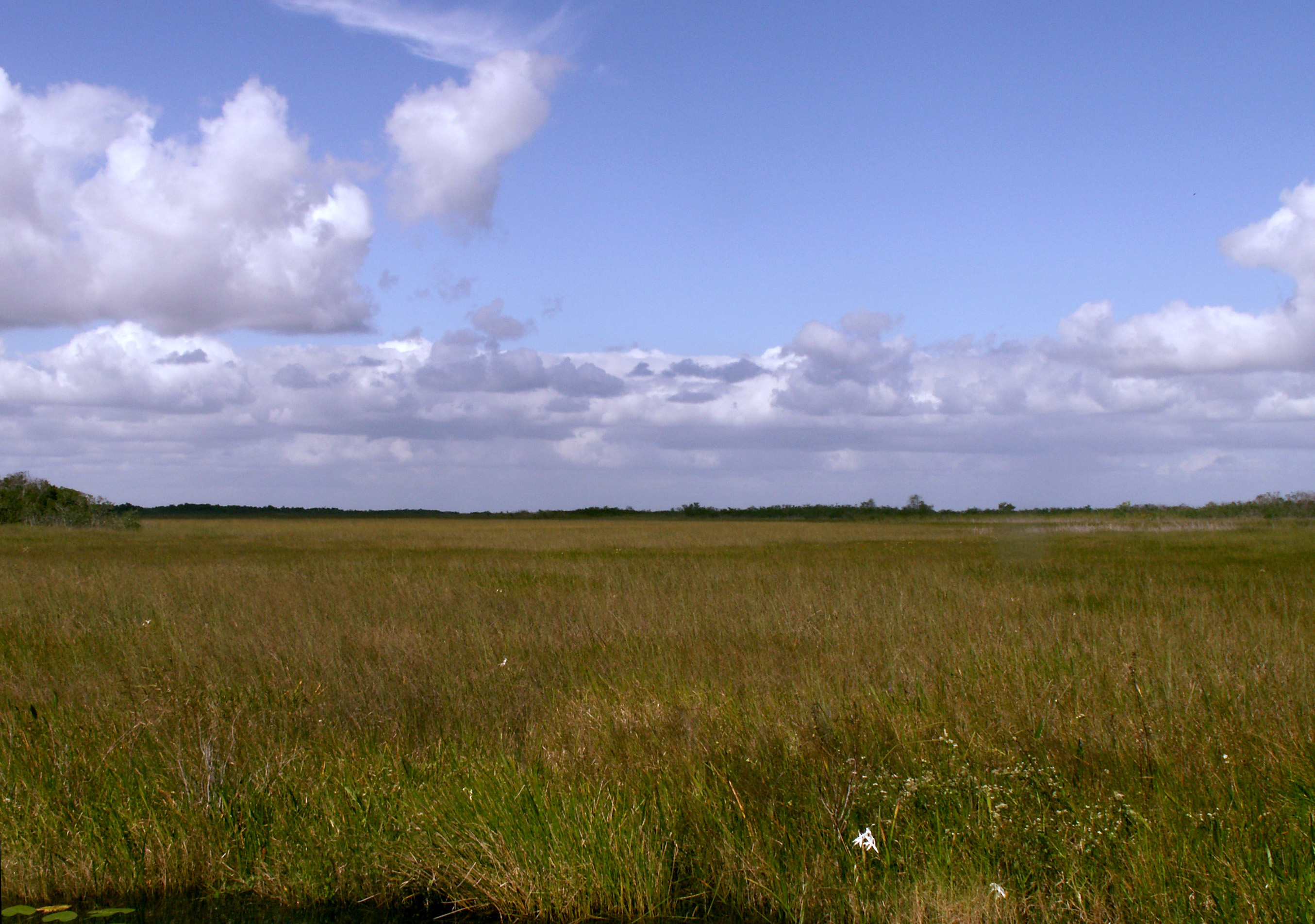 Sawgrass prairie in Everglades National Park north of Anhinga Trail